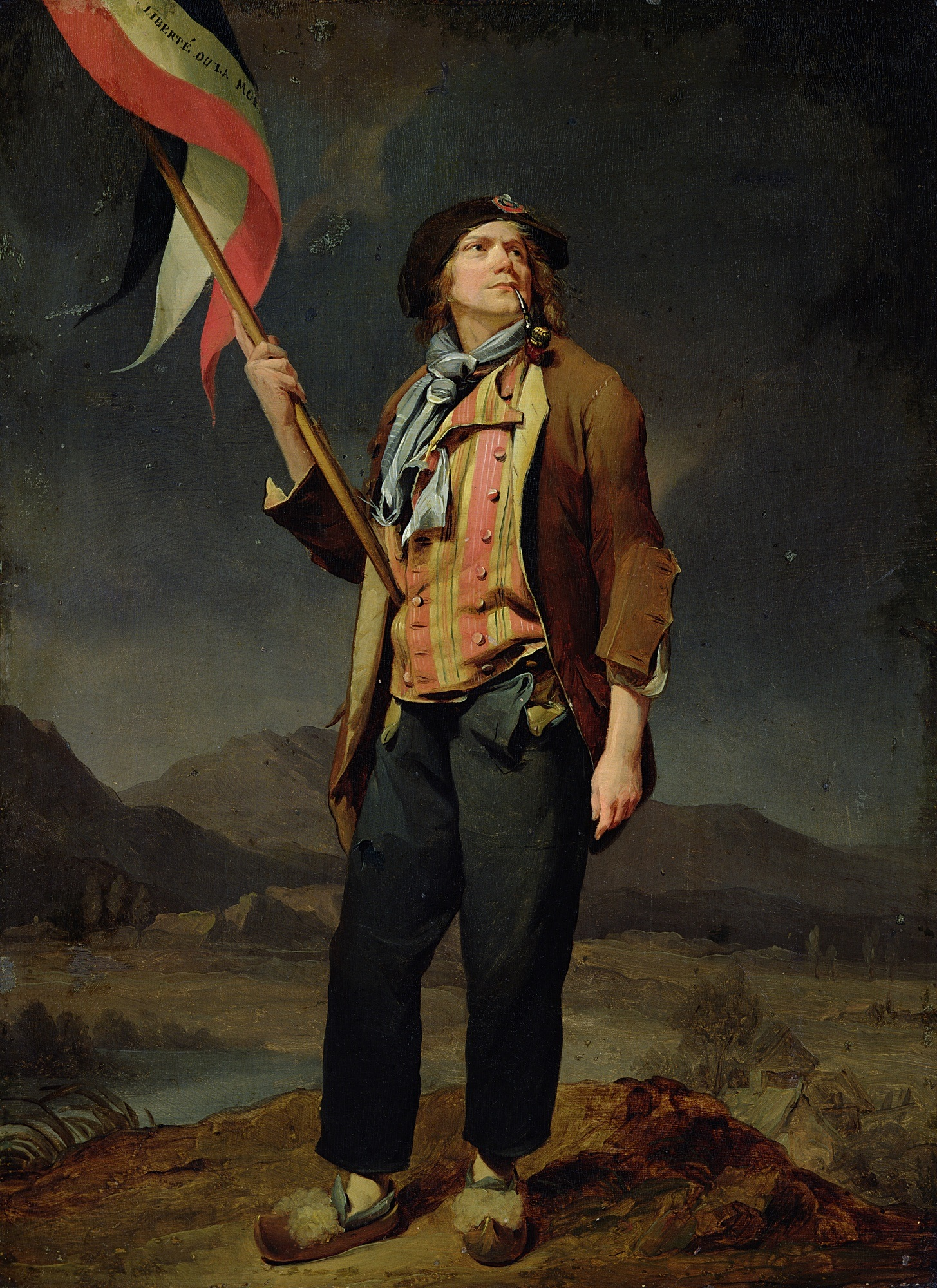 Painting of a typical sans-culotte